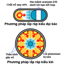 Schematic representation of the two methods with which to assemble a fission bomb (see nuclear weapon design).